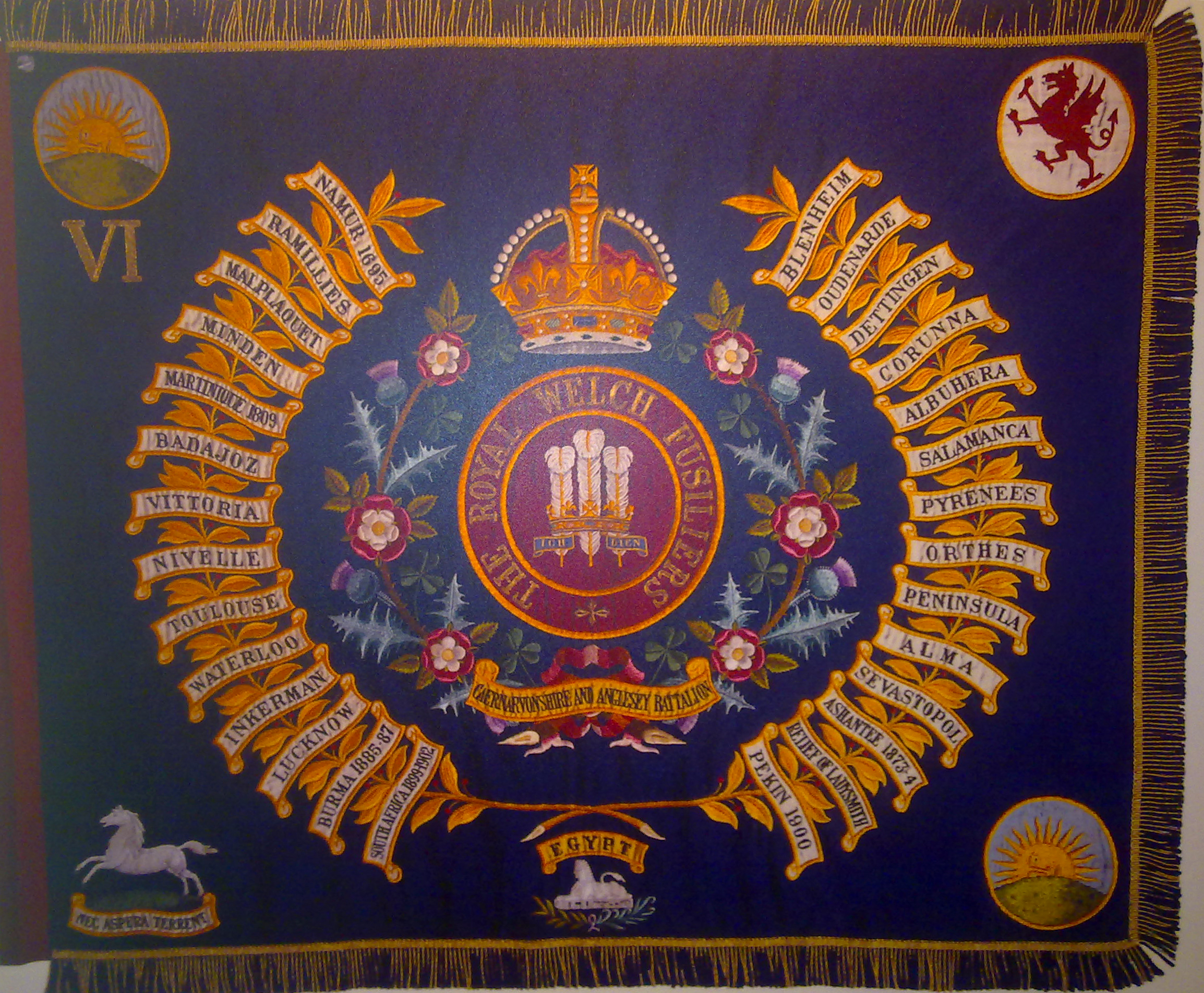 This is the Colour of the Royal Welch Fusiliers, a former infantry regiment of the British Army, as publically displayed at the Royal Welch Fusiliers Museum within the bounds of Caernarfon Castle, in the Royal Town of Caernarfon, Gwynedd, Wales. Listed on it are the names of the regiment's major battles/campaigns (down to the Boer War and Boxer Rebellion), as well as motifs related to the regiment, the British Army, and the United Kingdom, such as the Royal heraldic badges of the UK.